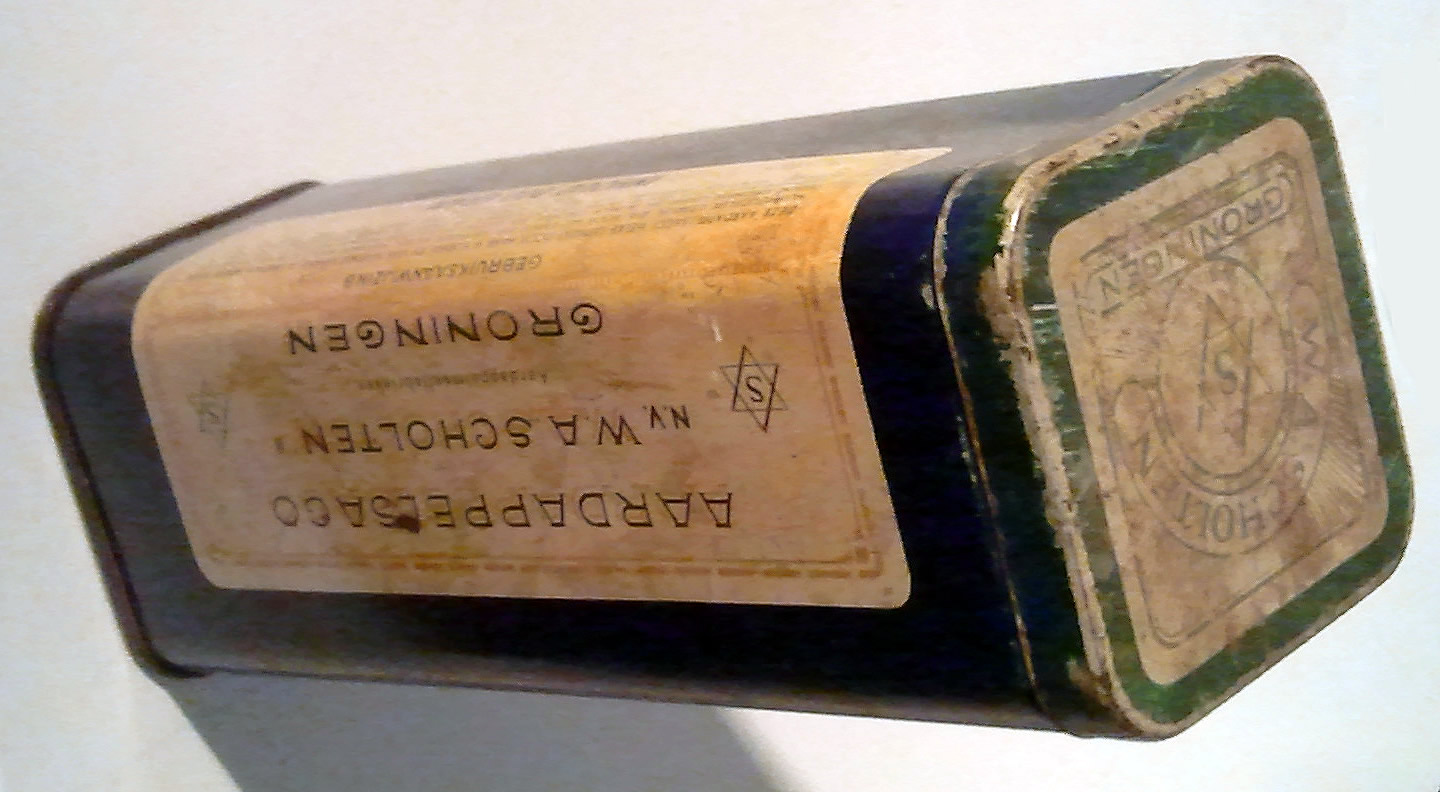 old can containing potato sago